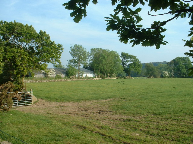 Betws Fawr farm.